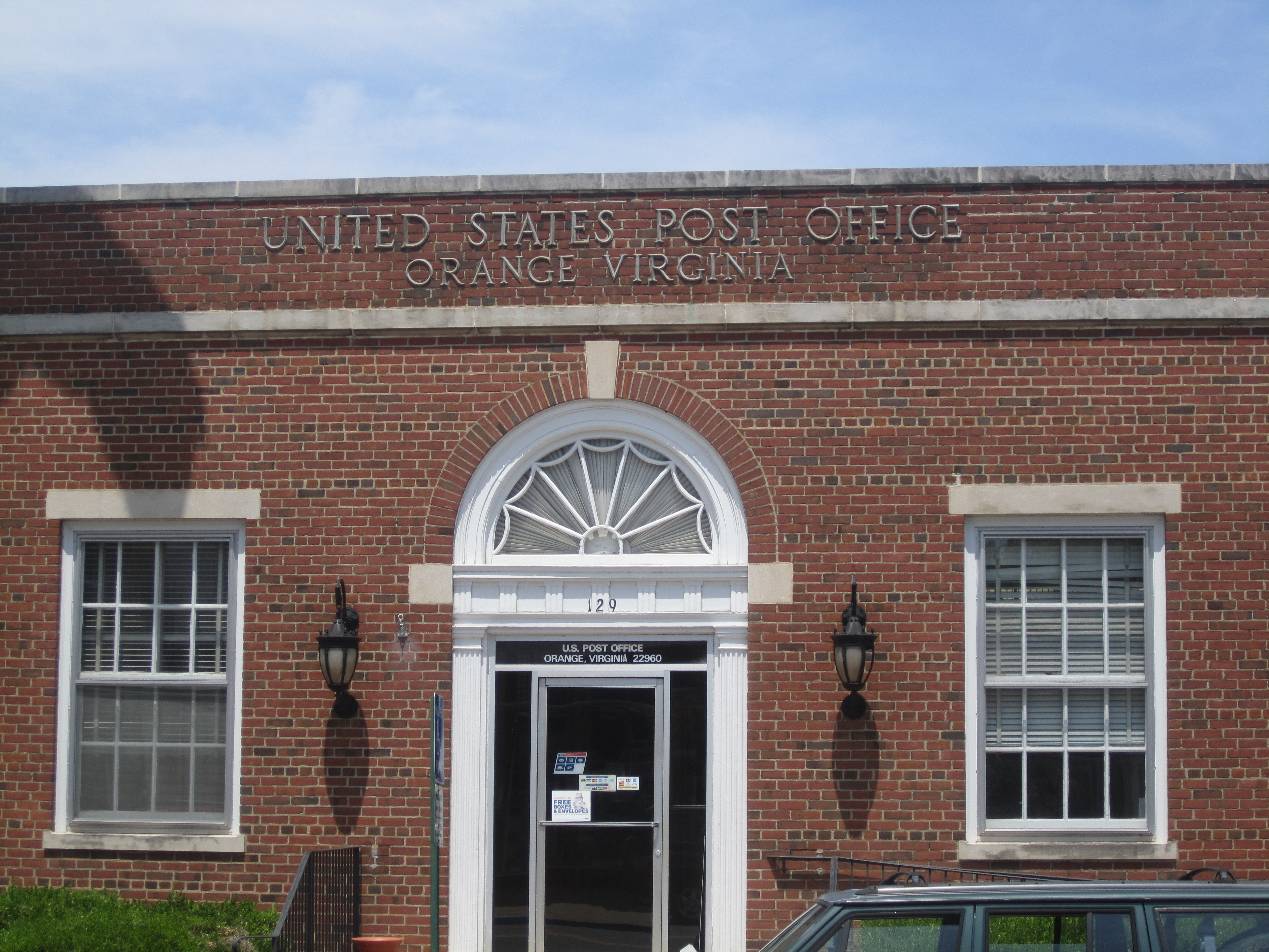 I took photo with Canon camera of post office in Orange, VA.